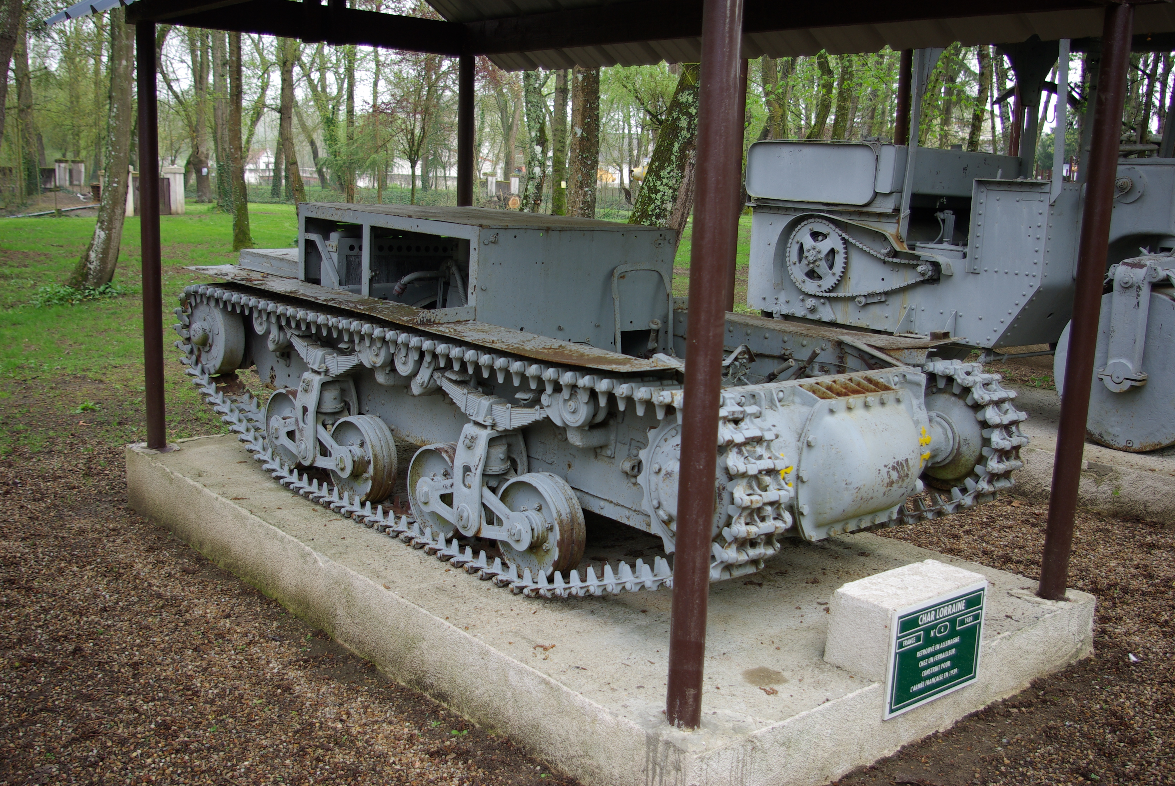 A french tankette Lorraine 37L displayed to the museum Maurice Dufresne (Indre-et-Loire, France).